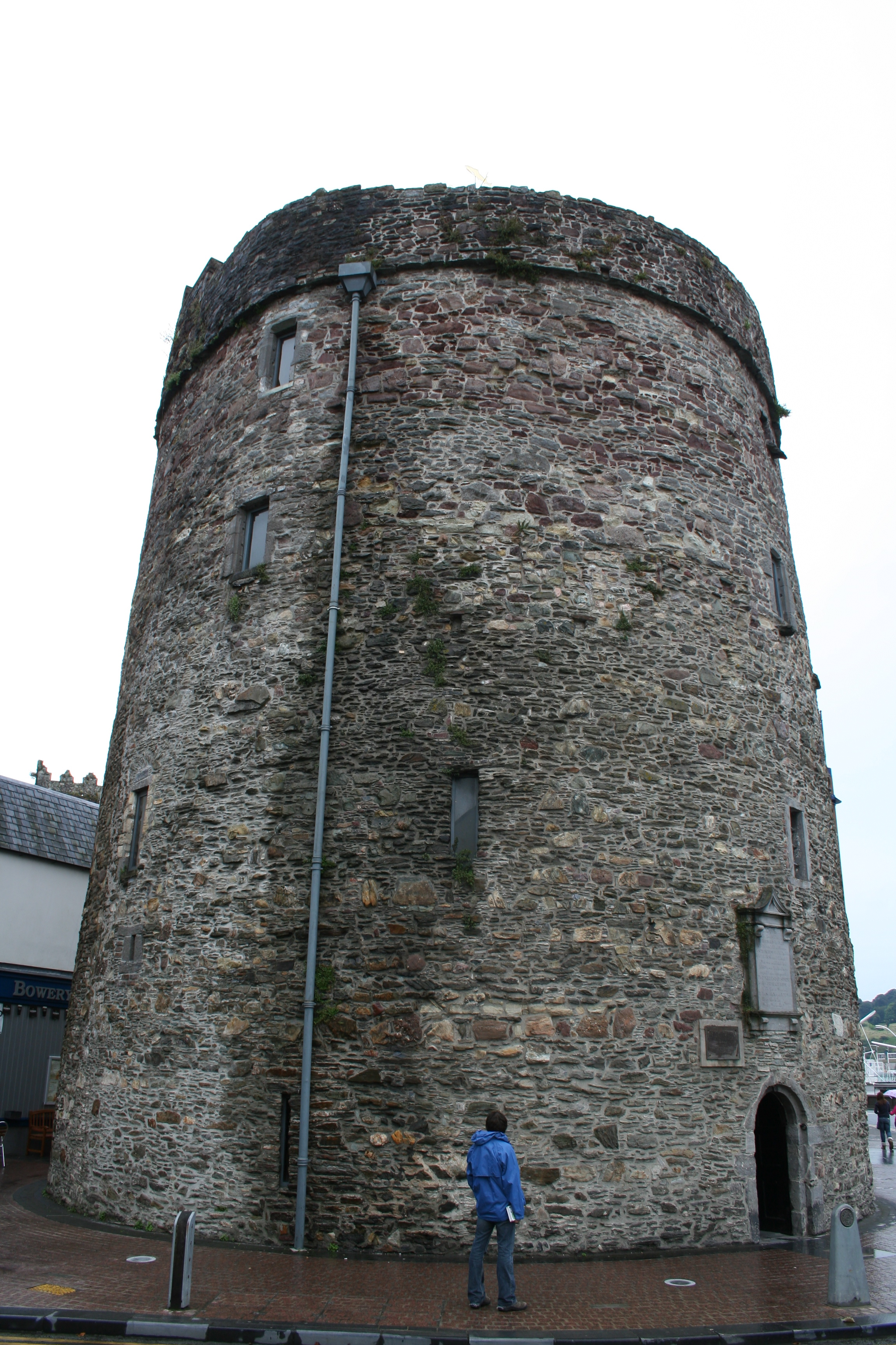 Reginalds tower